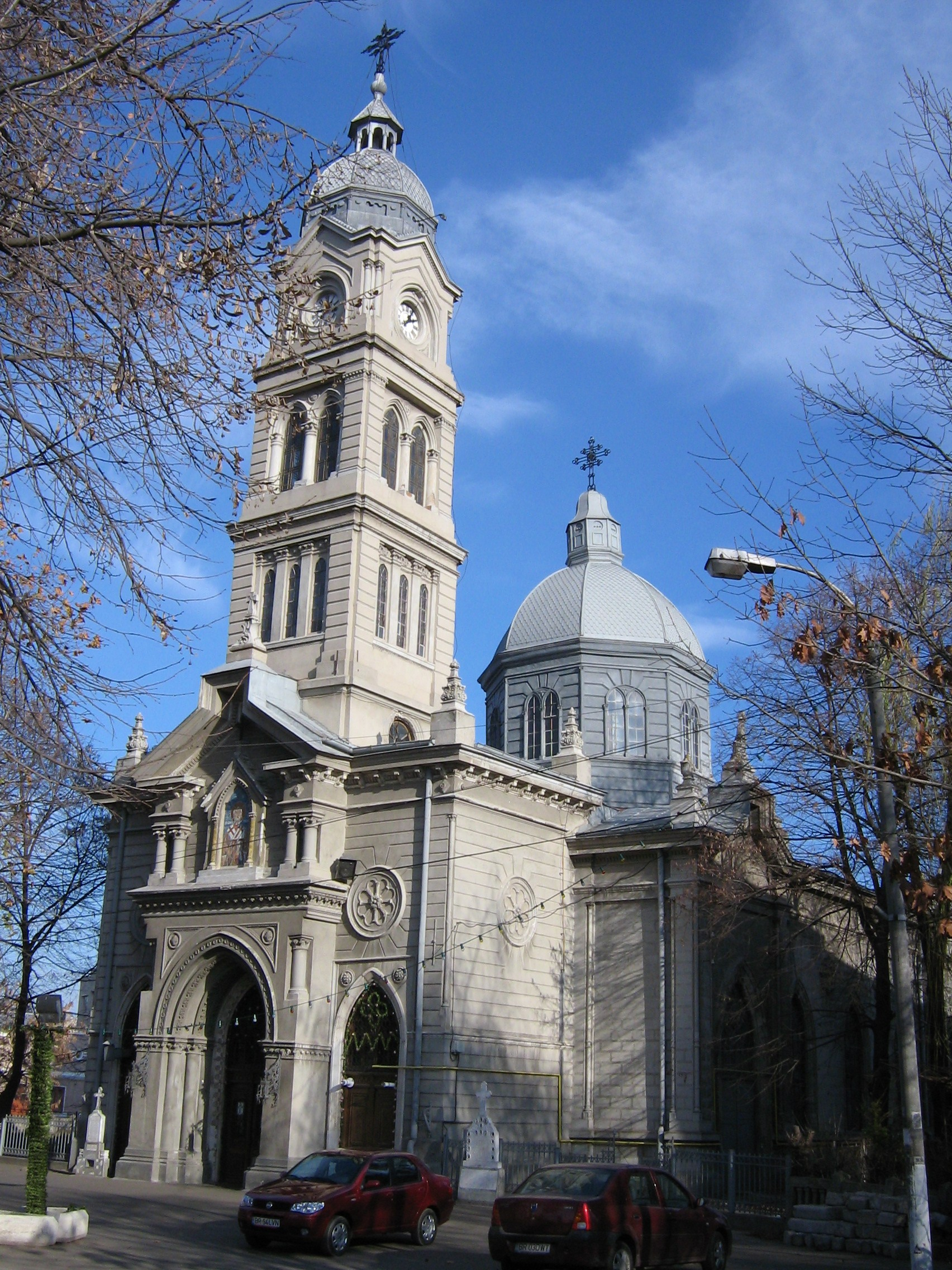 Saint Nicholas Church, Braila